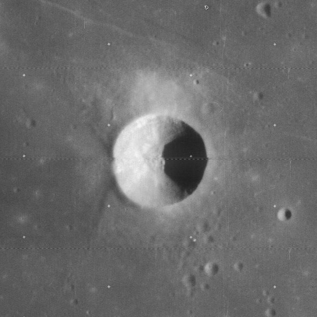 Cauchy, on the moon.